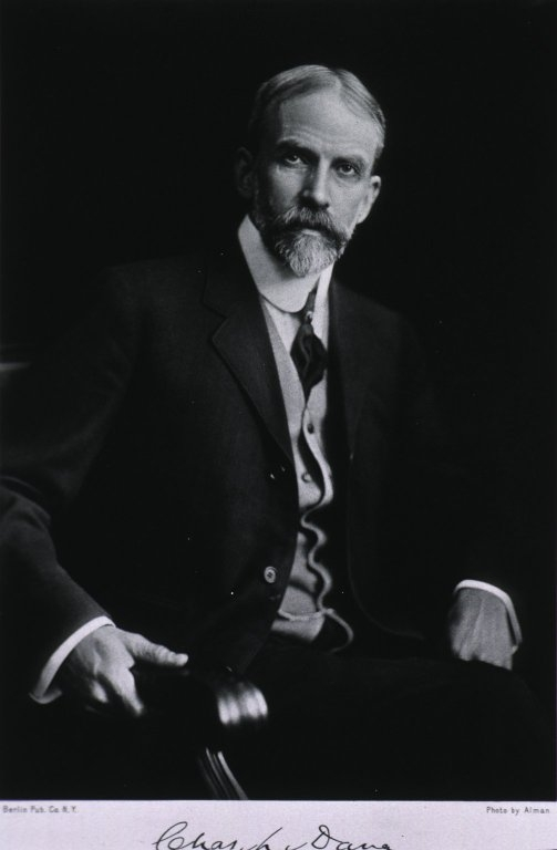 Charles Loomis Dana, M.D. HMD Prints & Photos, Portrait no. 1411a.